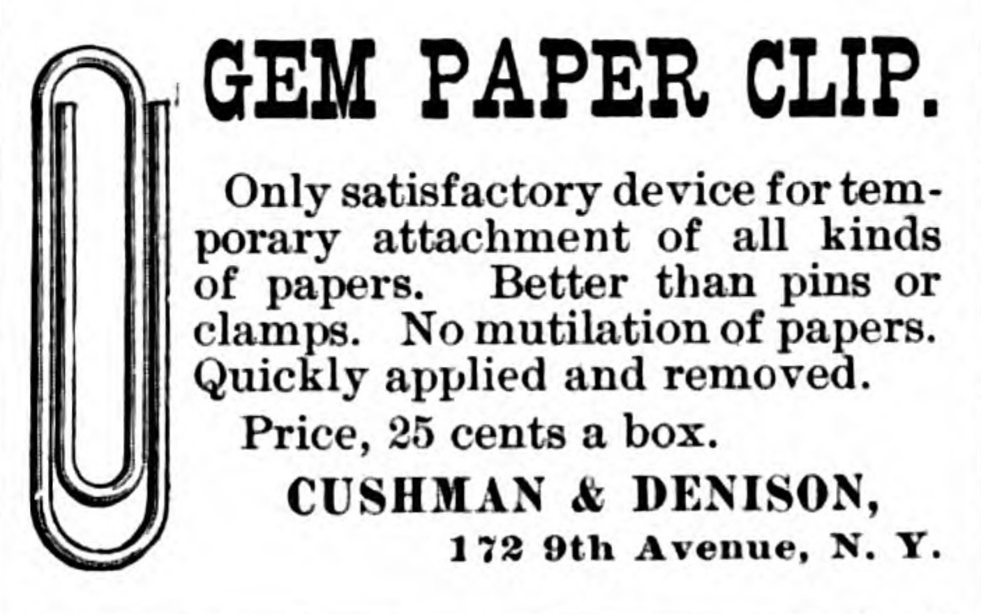 In "Editorial Miscellany", The Phonographic World, Vol. VIII.– No. 5, January 1893, 31 Broadway, New York City, E.N. Minder, editor, the editorial stated: " The Gem Paper Clip, advertised for the first time in the WORLD this month, and just placed on the markedt by Cushman & Denison, of New York, is one of the most useful contrivances we have ever seen. Be certain to read their advertisement." Searching this volume, I found two identical advertisements - this is one of them. The original may be viewed, here. The significance of this image is that it is a very early Gem Paper Clip advertisement - previously, the earliest one found by was Nov. 1893.